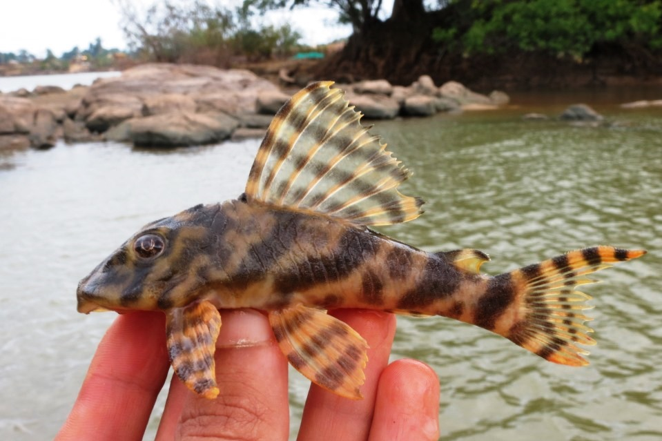 Brazil, Xingu river, Pará, January 2013, by Gabriel Lelis Togni